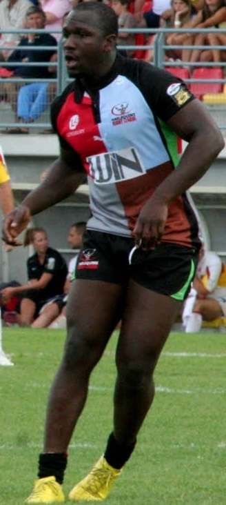 Lamont Bryan vs Catalans